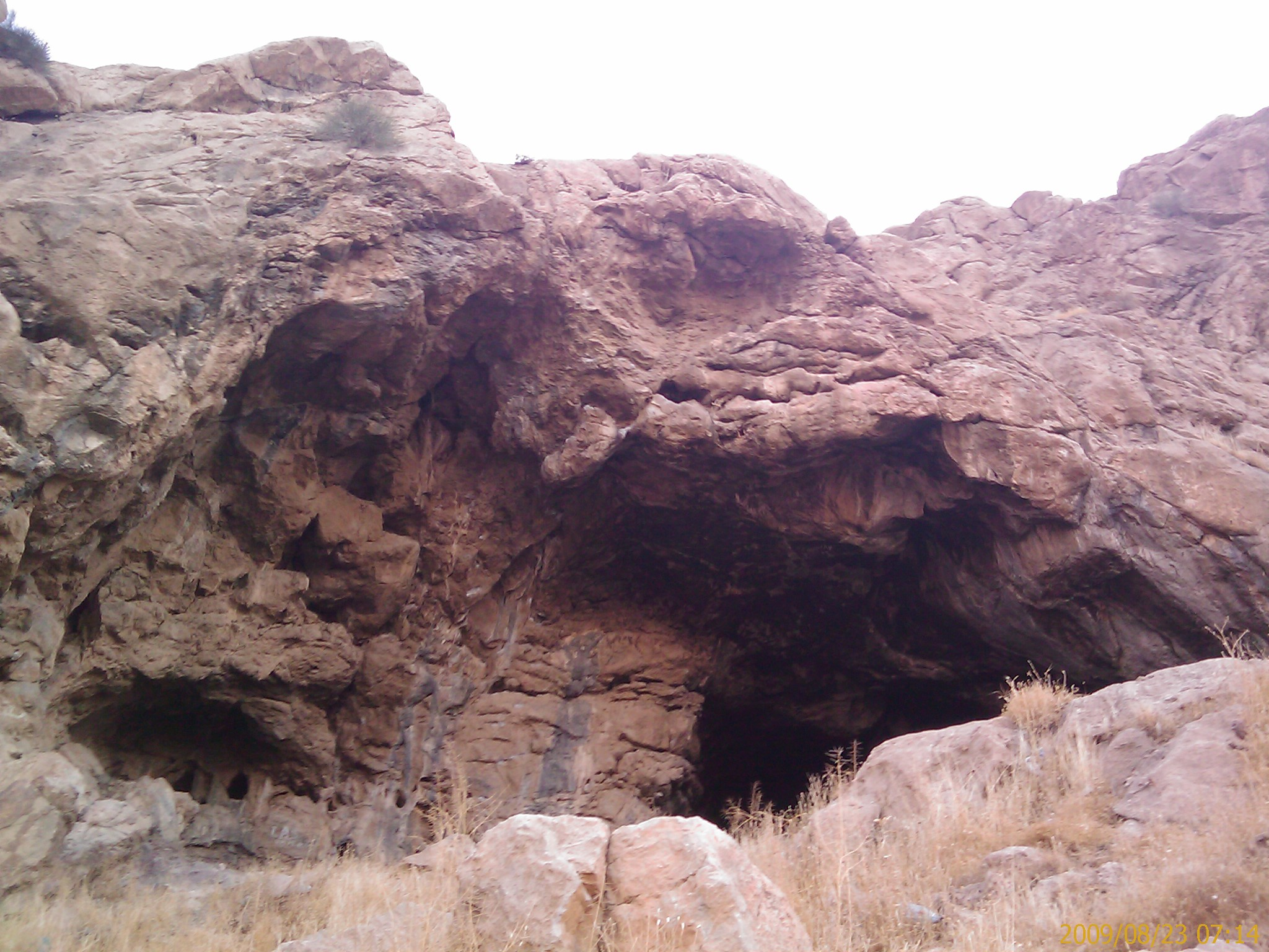 DO Ashkaft cave, in north of kermanshah city, west of iran,Location Neanderthals